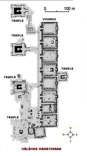 A site plan of the Nalanda Mahavihara